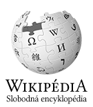 Wikipedia logo 2.0